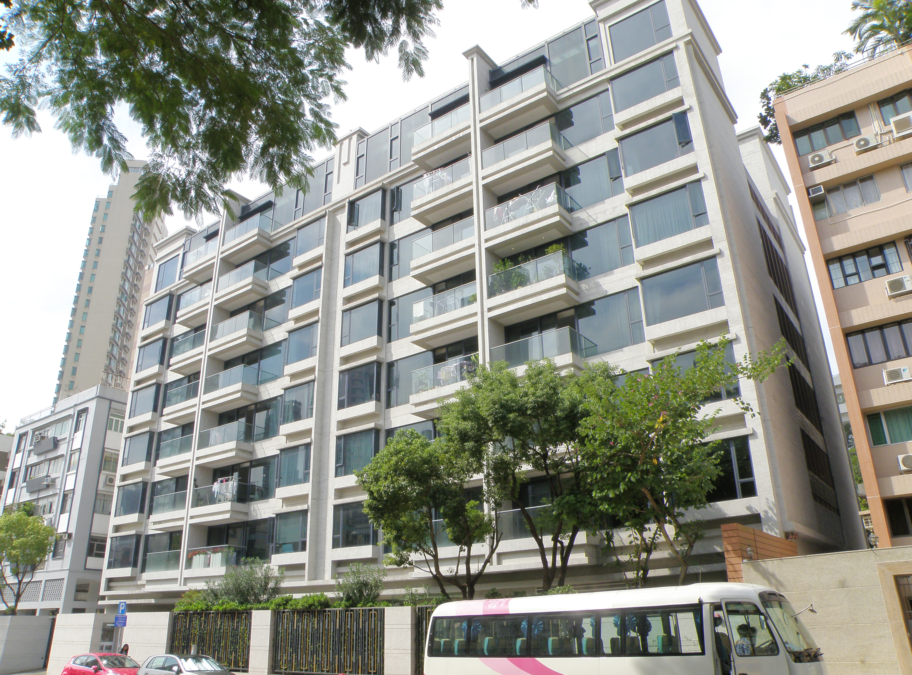 The Grandeur in Kowloon City, Hong Kong.